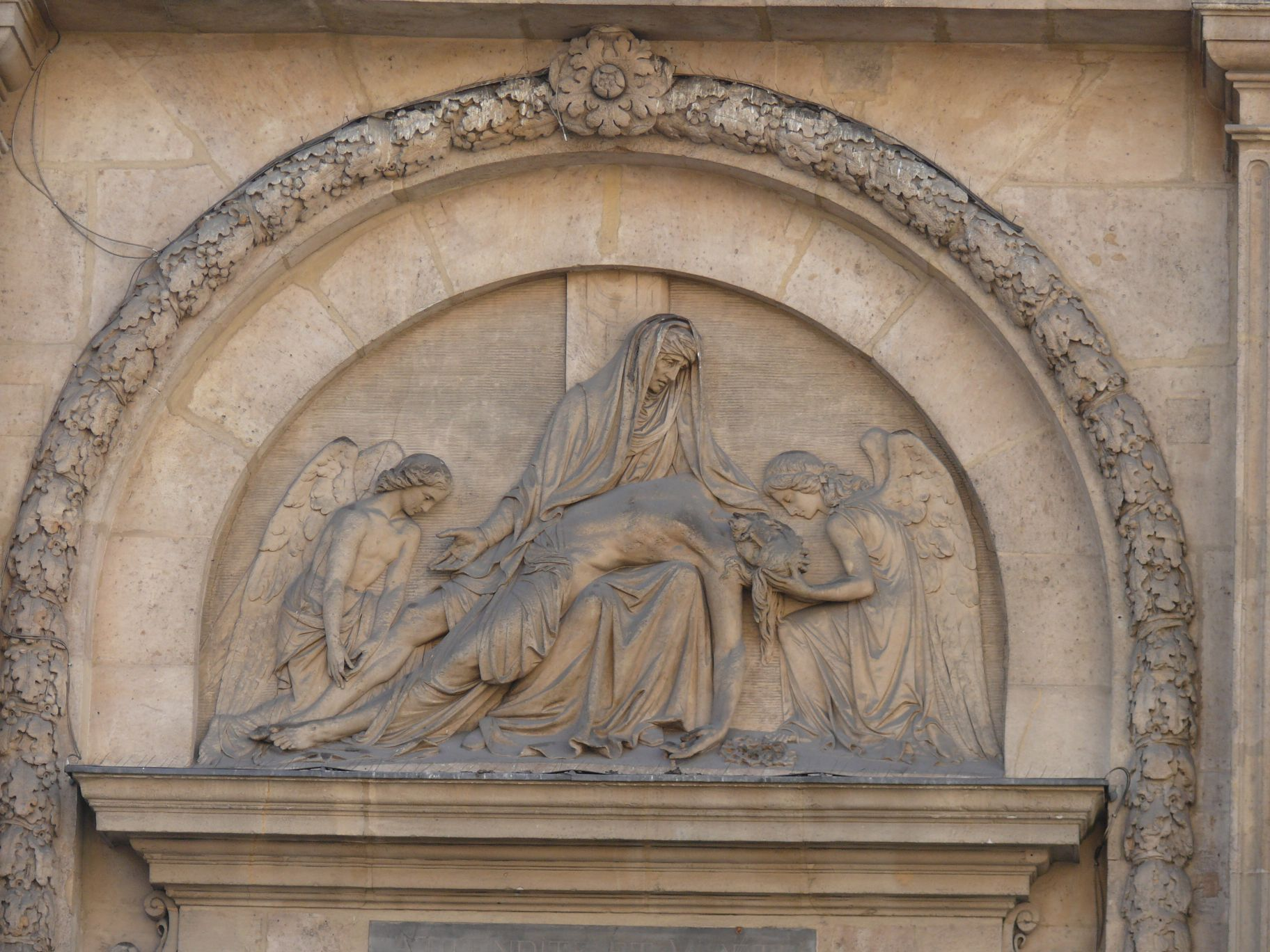 Sainte-Élisabeth-de-Hongrie's church, in Paris (Paris III, France)